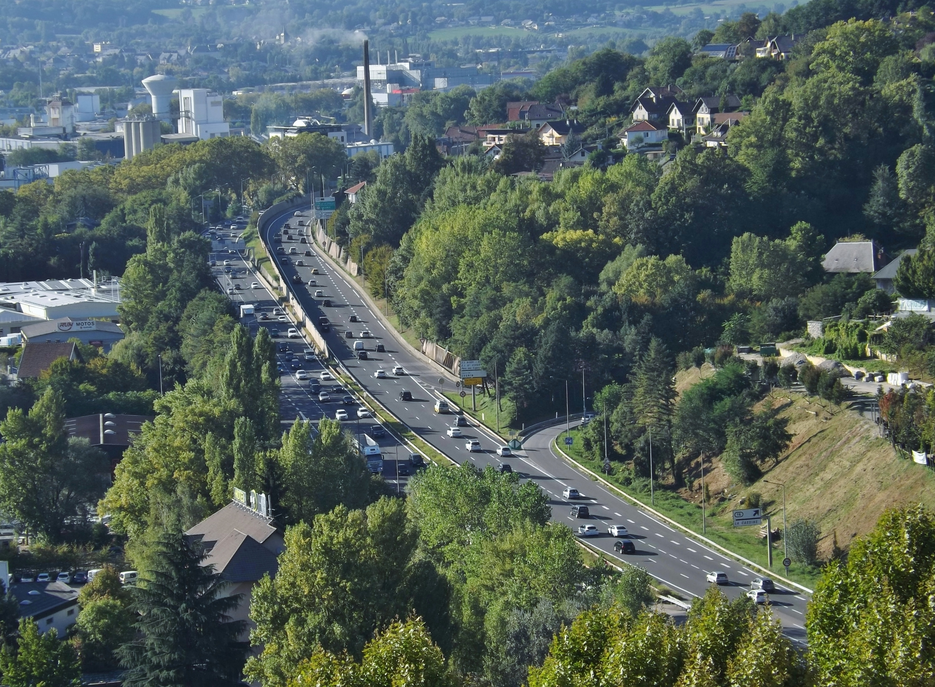 Sight of the Route nationale 201 (national road 21), local highway crossing Chambéry, here at the foot of the Boisse hill near La Cassine neighborhood, in Savoie, France.